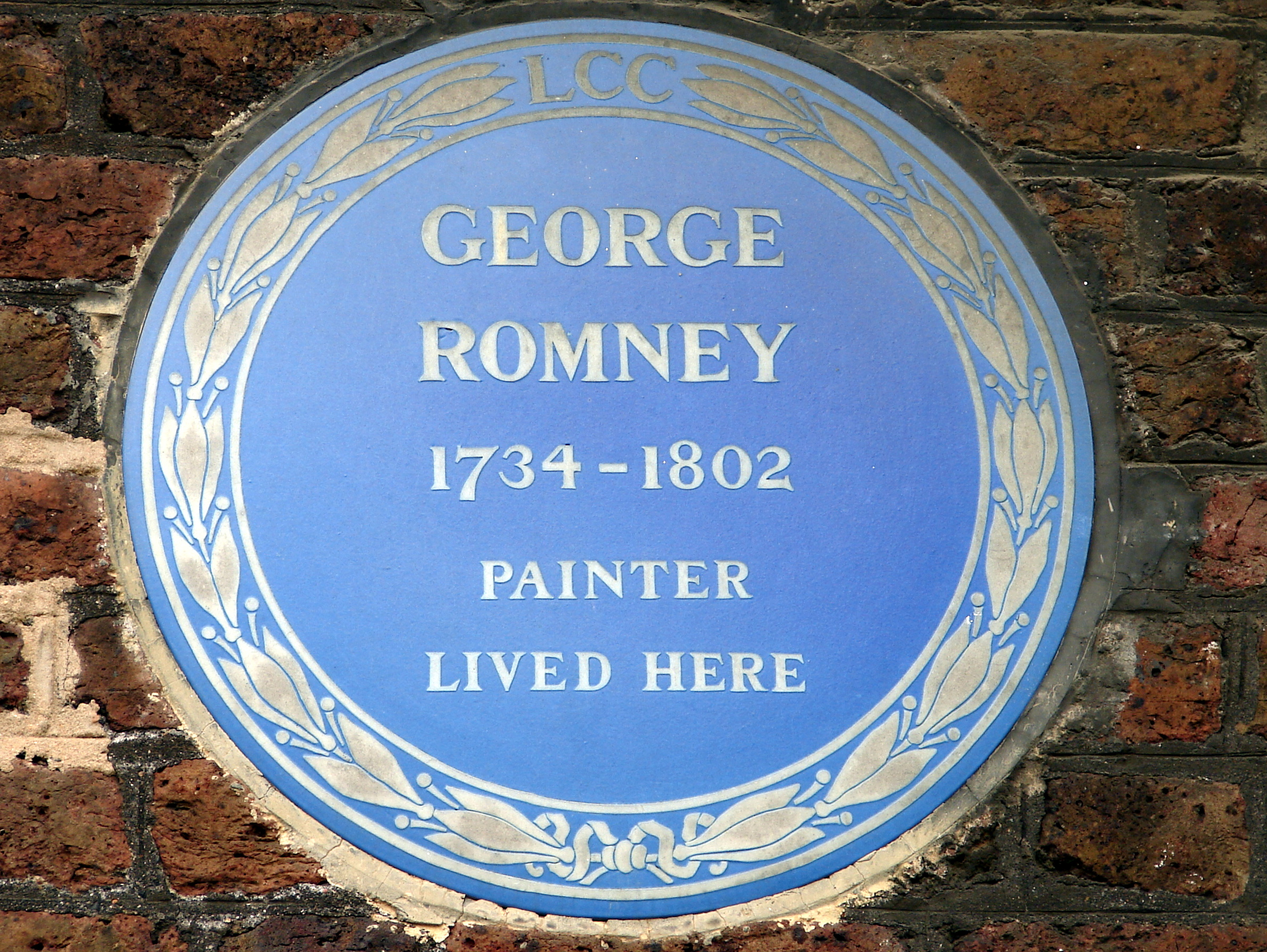 George Romney